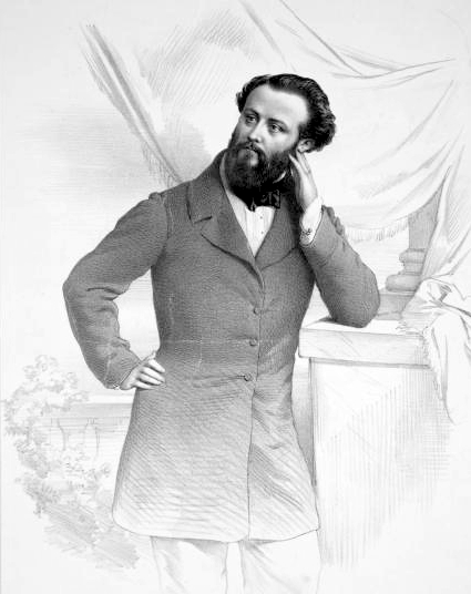 Gustave-Hippolyte Roger (1815-1879) by Marie-Alexandre Alophe (1812-1883).